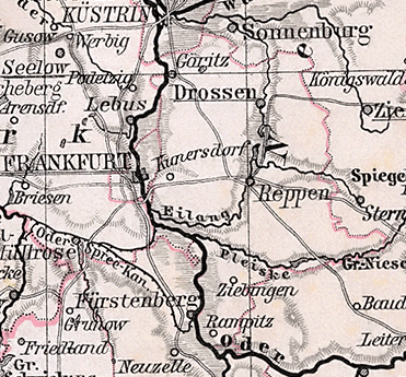 Detail from a map of Brandenburg.